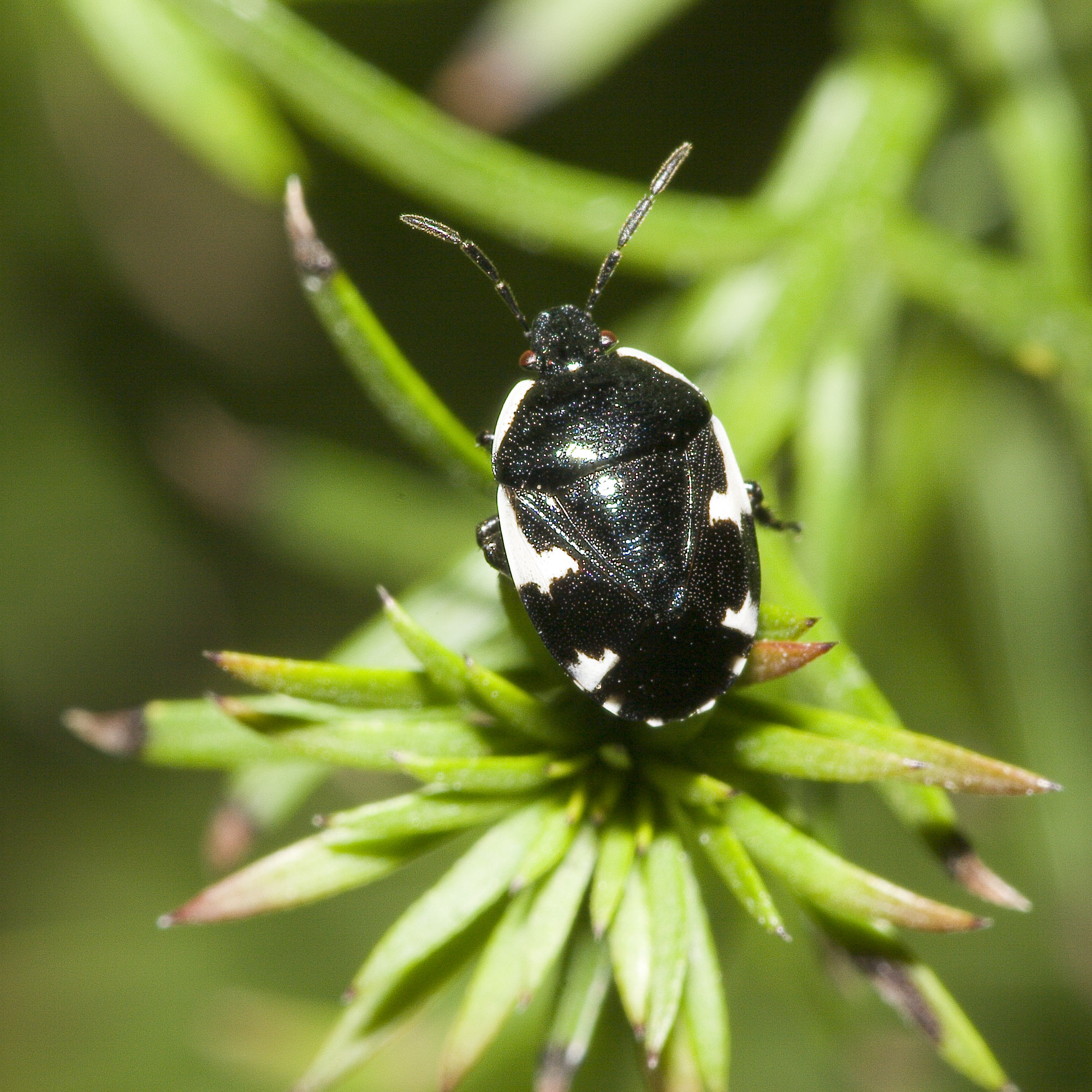 Tritomegas sexmaculatus (Rambur, 1839) Location: Dresden (Saxony, Germany) 5/180L f16 Film / Speed: ISO 100 Comment: Canon Flash 580EX